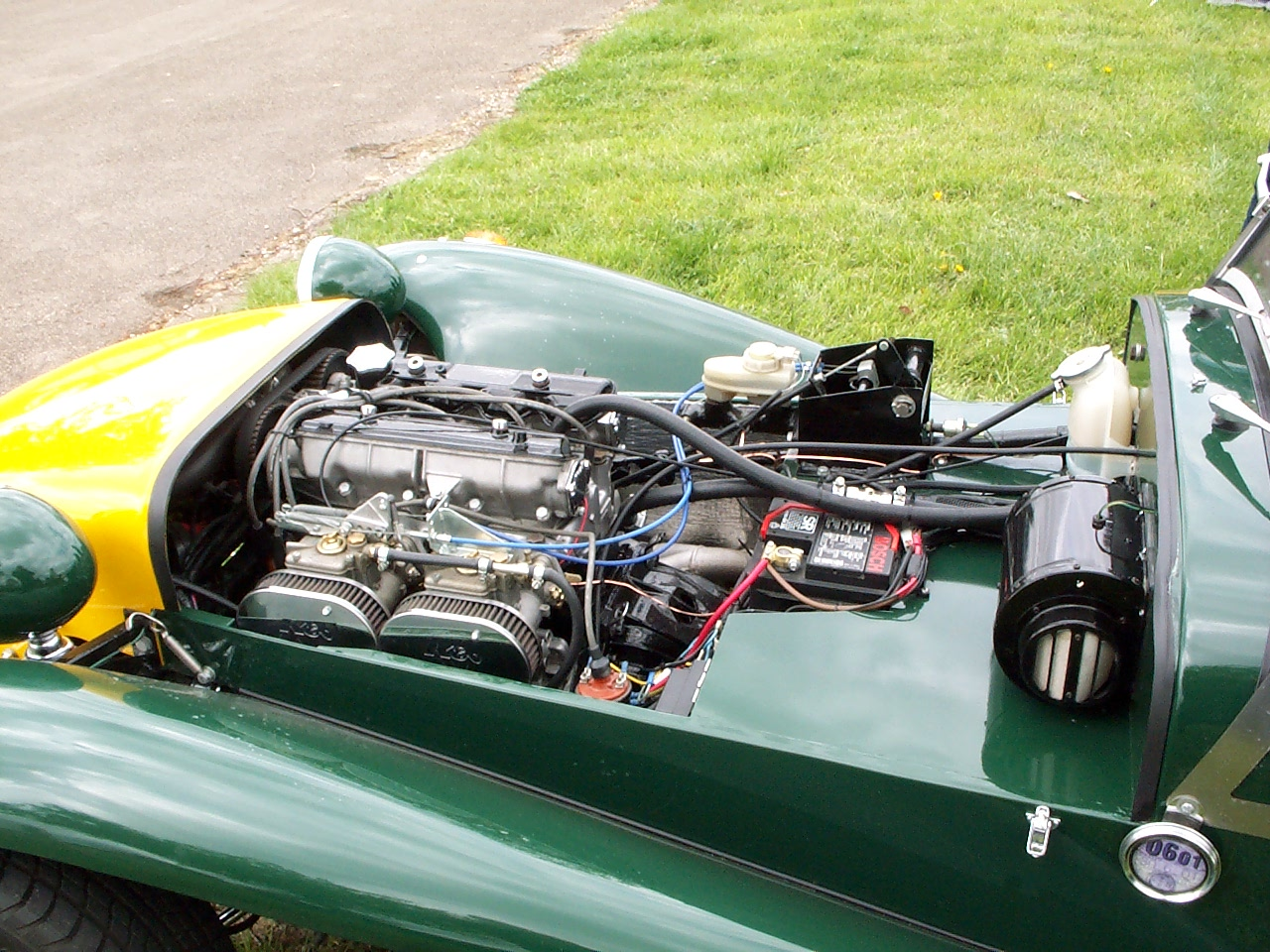 Locust Seven - Fiat Engine Original photo taken by Peter Wannop